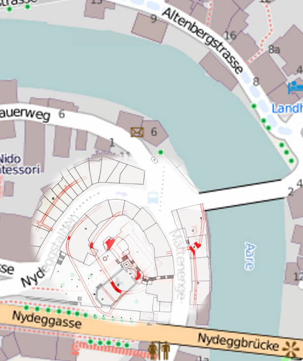 Map of Bern and overlay map of Nydegg castle.